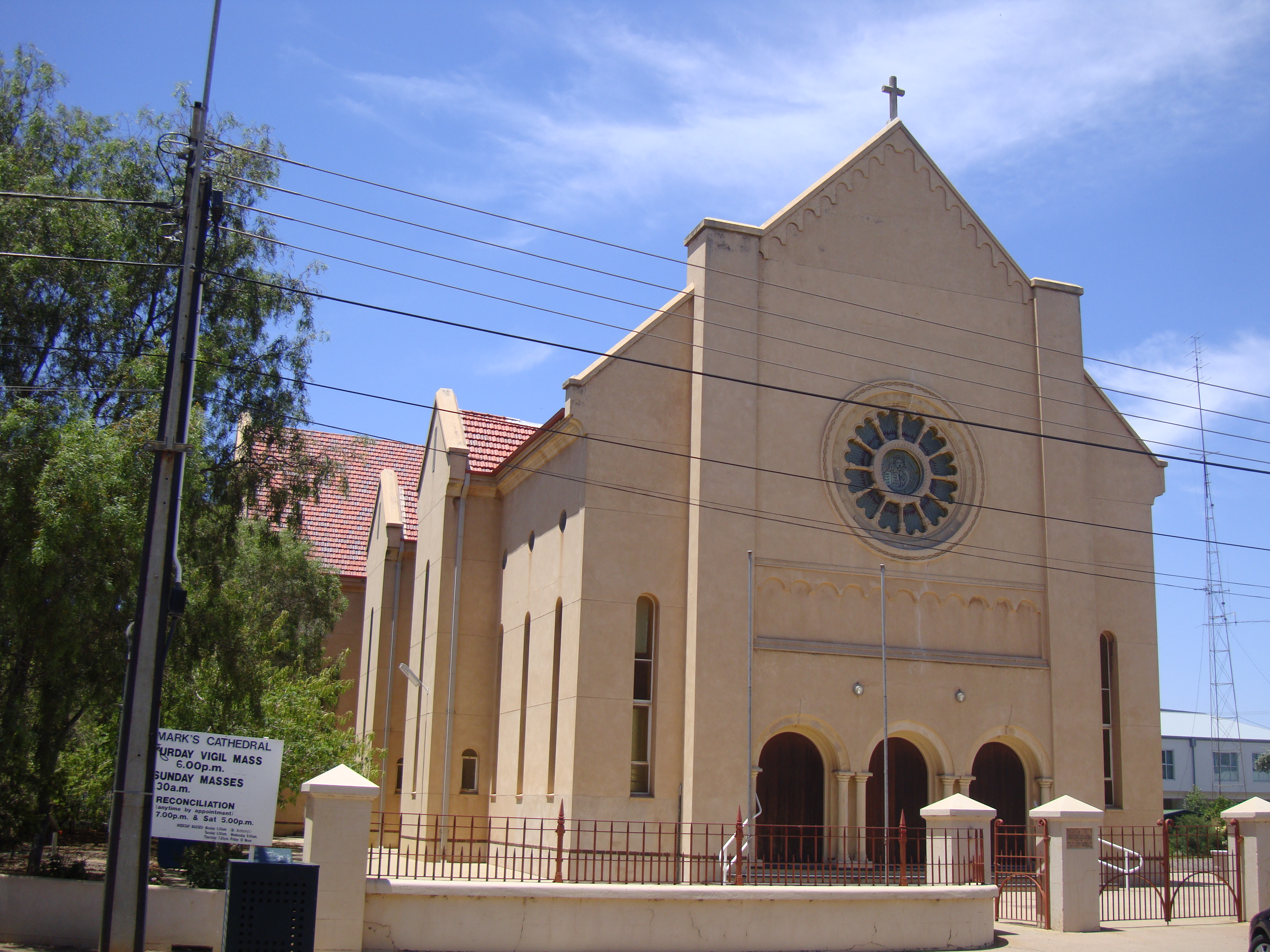 Photograph of St Mark's Cathedral, Port Pirie, South Australia